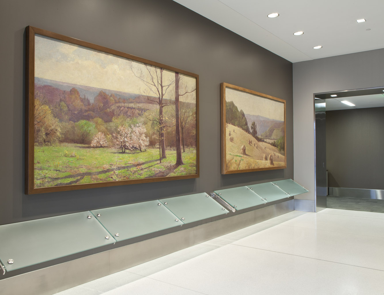 A view of T.C. Steel mural fragments showing the four seasons.